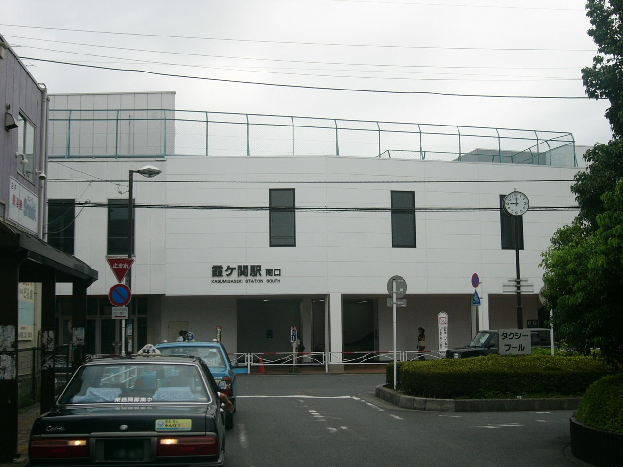 South entrance of Kasumigaseki Station on the Tobu Tojo Line